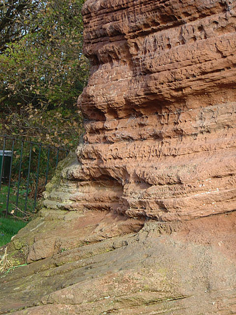 Erosion patterns in the Lenton Sandstone Formation layer of the Hemlock Stone on Stapleford Hill, Nottinghamshire. The southwest corner of the Hemlock Stone shows a much more broken pattern of erosion than the other faces.